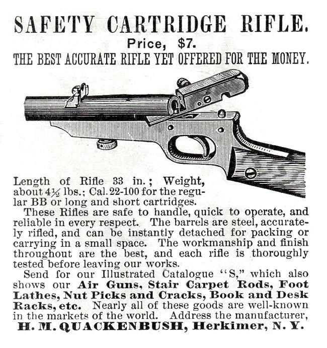 Advertisement for the Quackenbush cartridge rifle